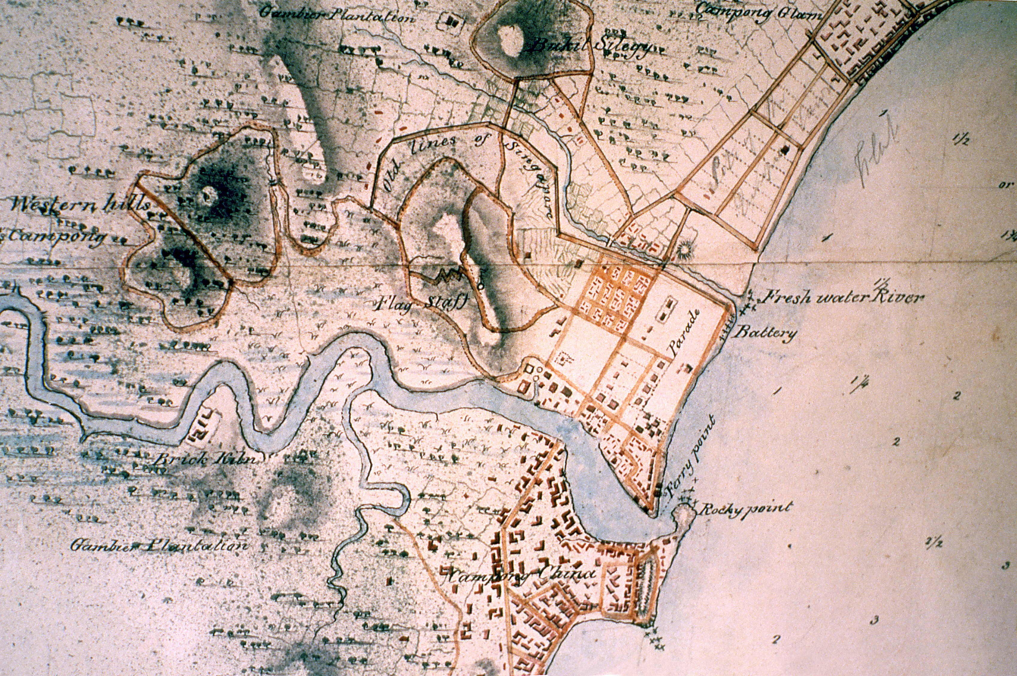 A survey map of Singapore showing the old lines of Singapore; the Singapore River; and Rocky Point, where the ancient sandstone slab which the Singapore Stone is a fragment of once stood.